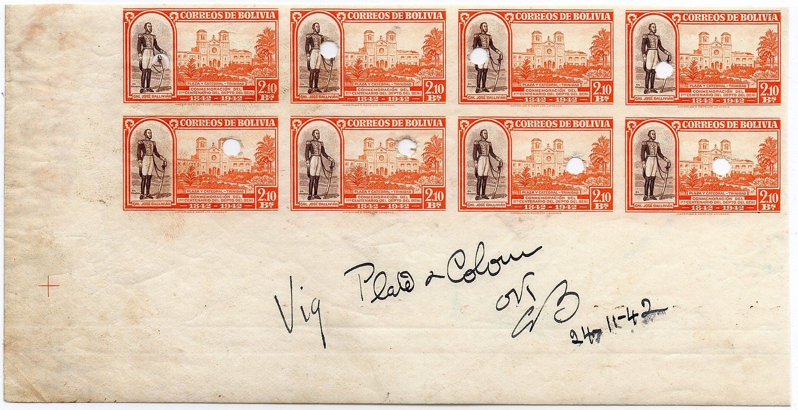 Bolivia Centenary of Beni 2.10b proof stamps ex Waterlow archives 1942.